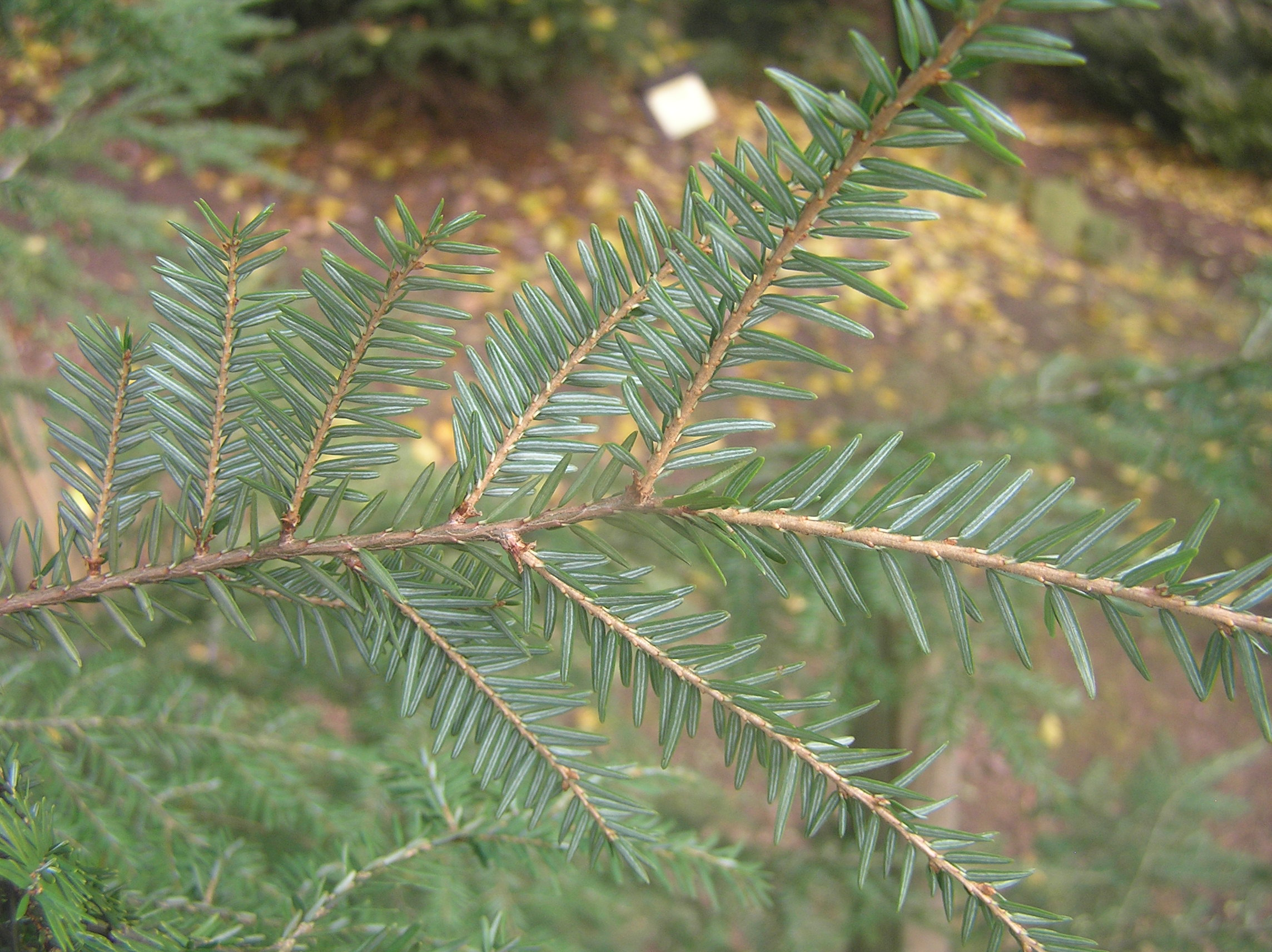 Tsuga canadensis (not T. chinensis as labelled), cultivated in the Czech Republic, arboretum Žampach